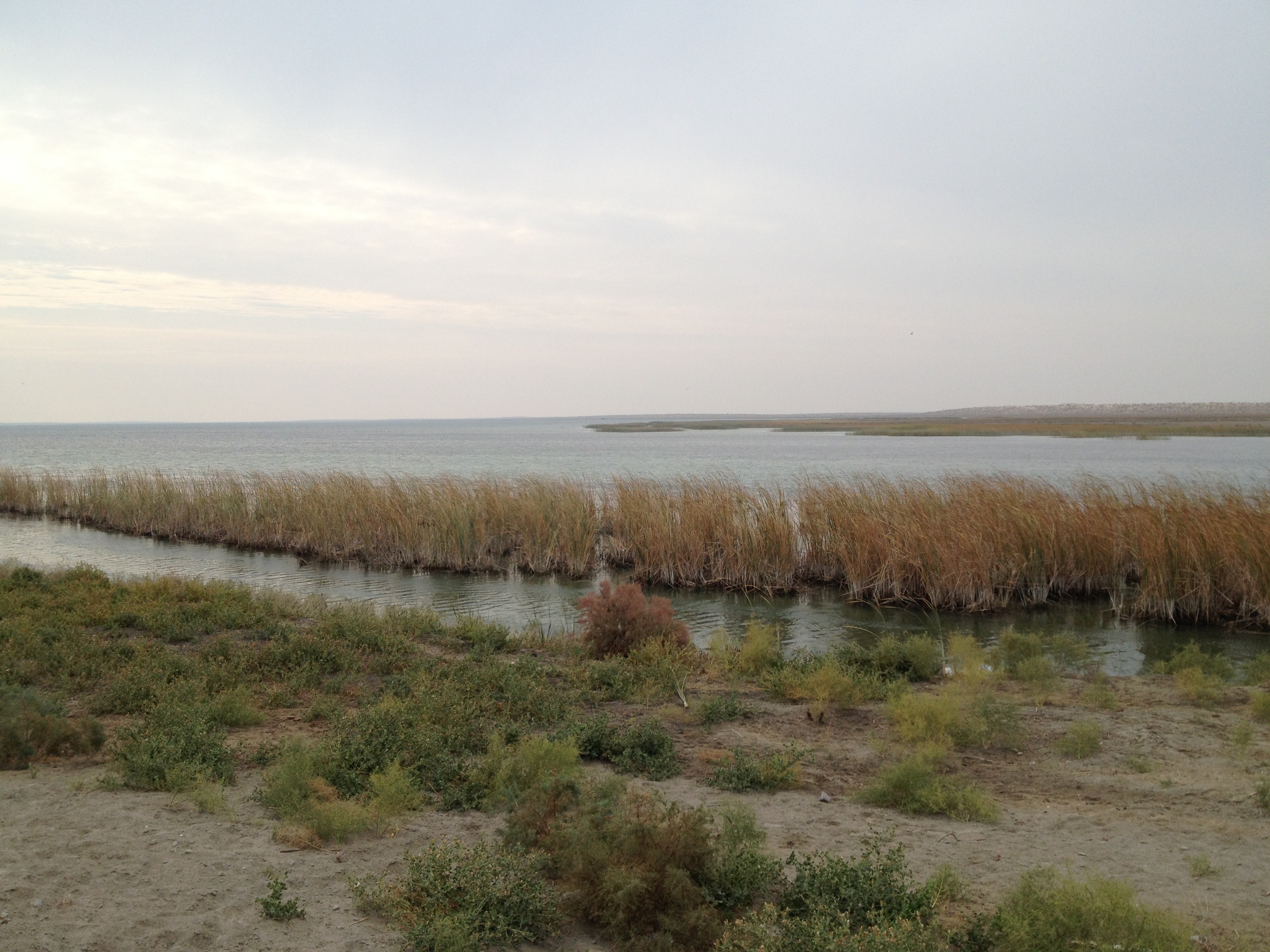 Ulugshurkul lake in Uzbekistan Oʻzbekcha/ўзбекча: Ulug`sho`rko`l (O`zbekistonda)